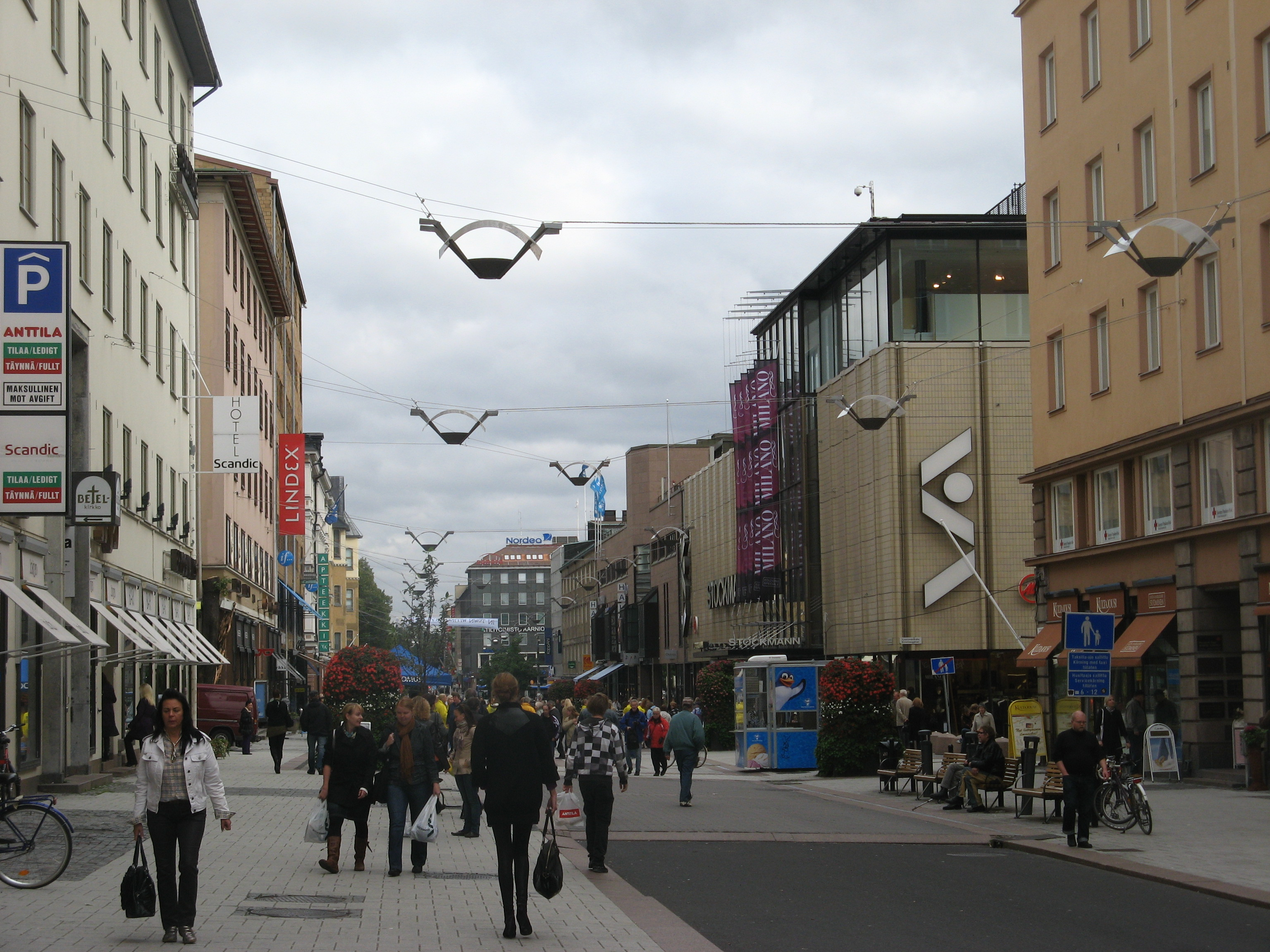 Yliopistonkatu, the main pedestrian street in the center of Turku